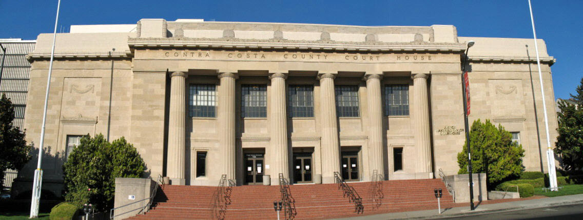 National Register of Historic Places listings in Contra Costa County, California. Contra Costa County Hall of Records, 725 Court St, Martinez, California, USA. Now the Contra Costa County Court House. Photographed 2008-09-14 from the west side of Court St. between Main and Ward Sts.